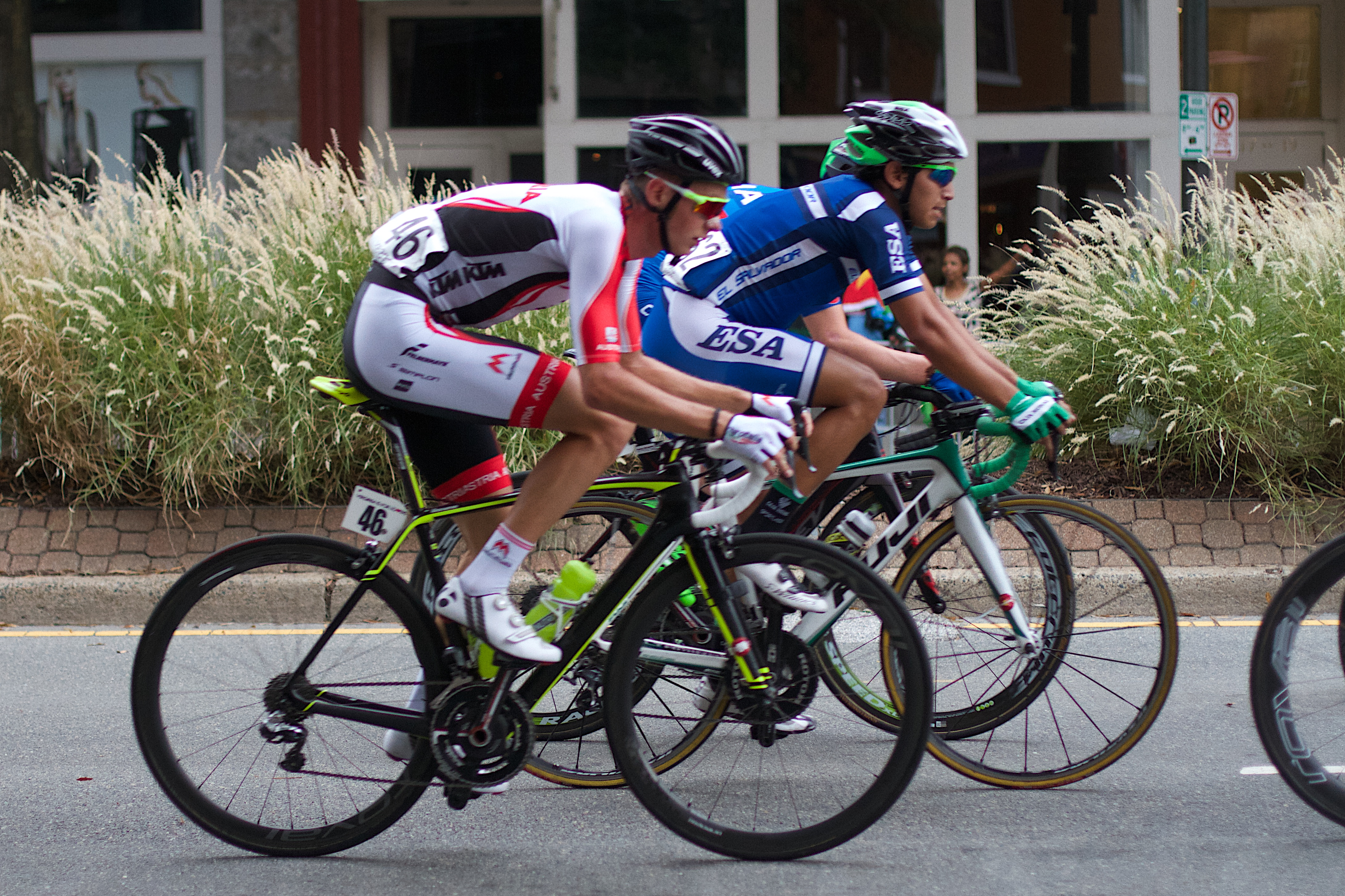 UCI Road Championship Races, Richmond VA 2015 UCI Road World Championships, in Richmond, United States, men's under-23 road race